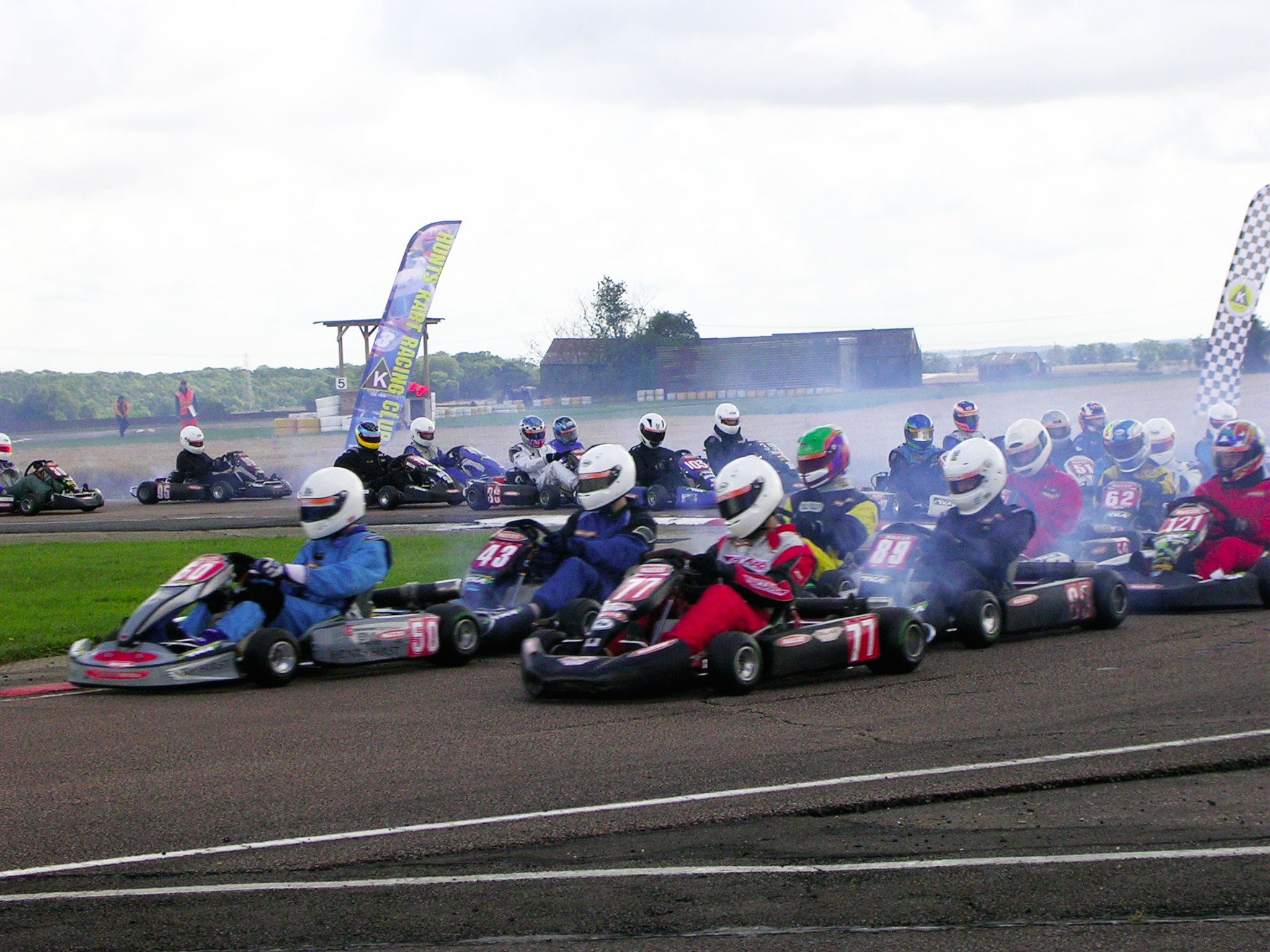 A example of British TKM 2-Stroke racing at Kimbolton KRC in England.